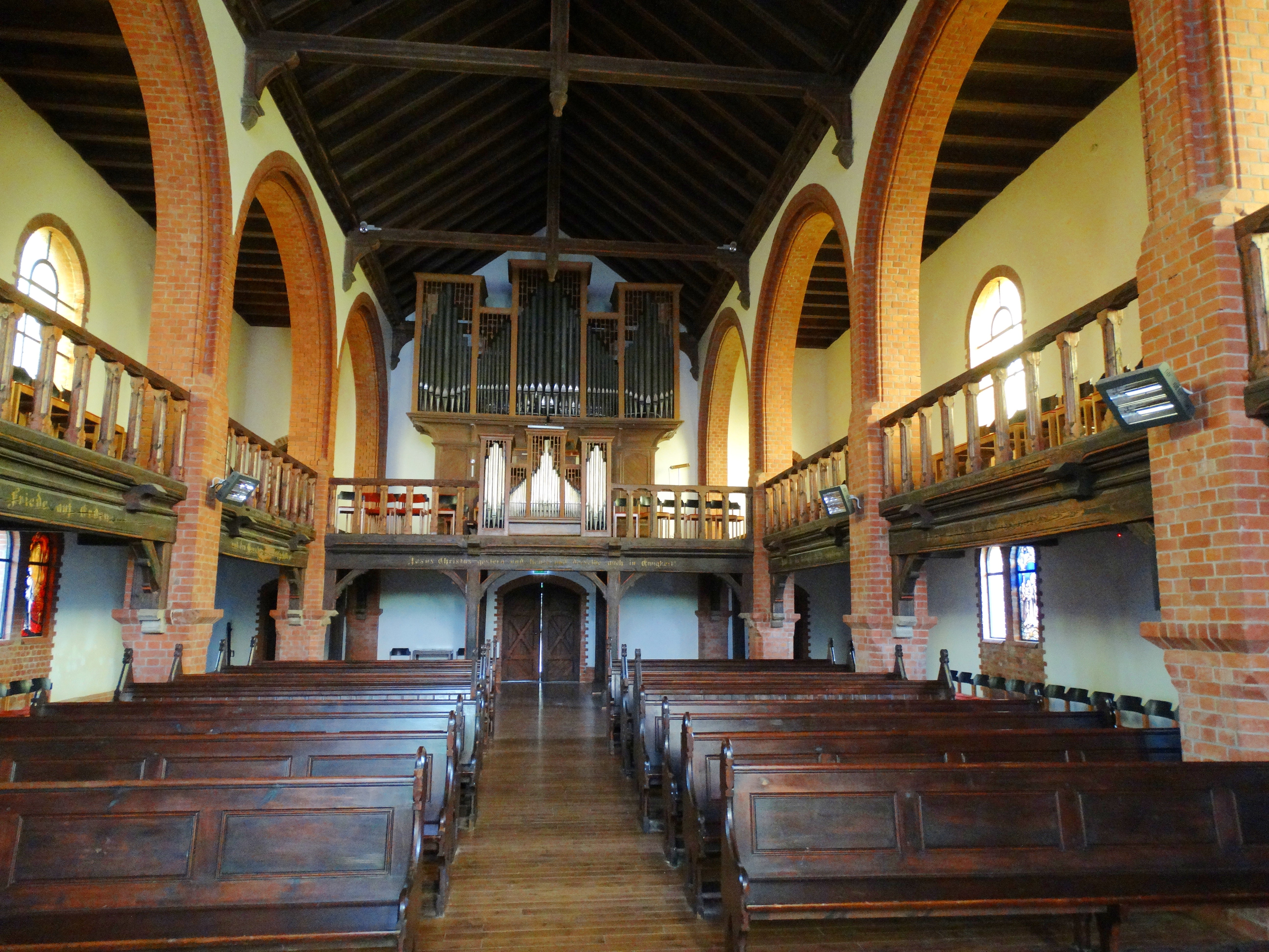 Lutheran Church interior, Vilkyškiai, Pagėgiai Municipality, Lithuania